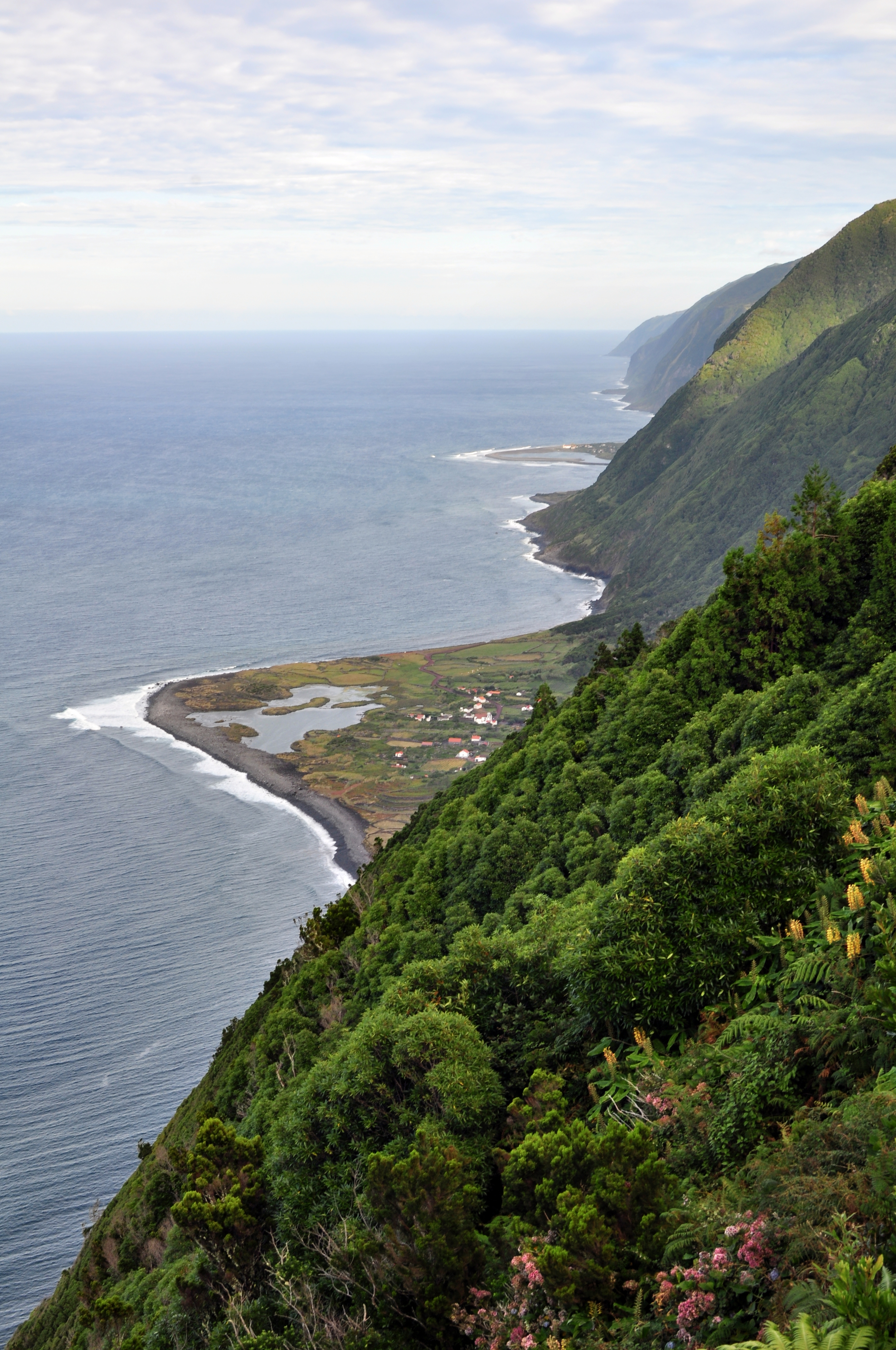 The beautiful north coast of São Jorge island with its lush vegetation in the foreground, and the Fajã dos Cuberes and the Fajã da Caldeira do Santo Cristo in the background.